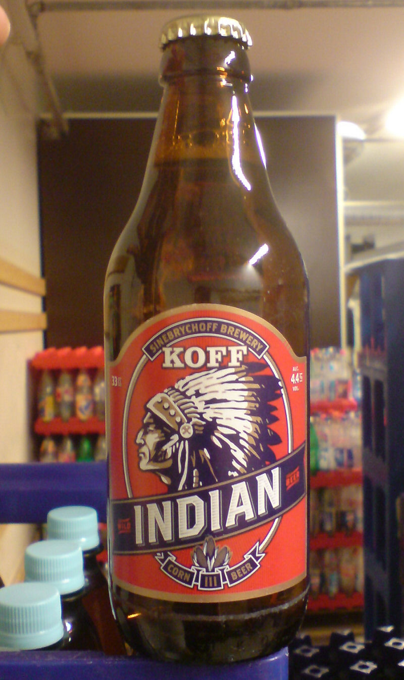 Finnish Koff Indian Corn lager beer